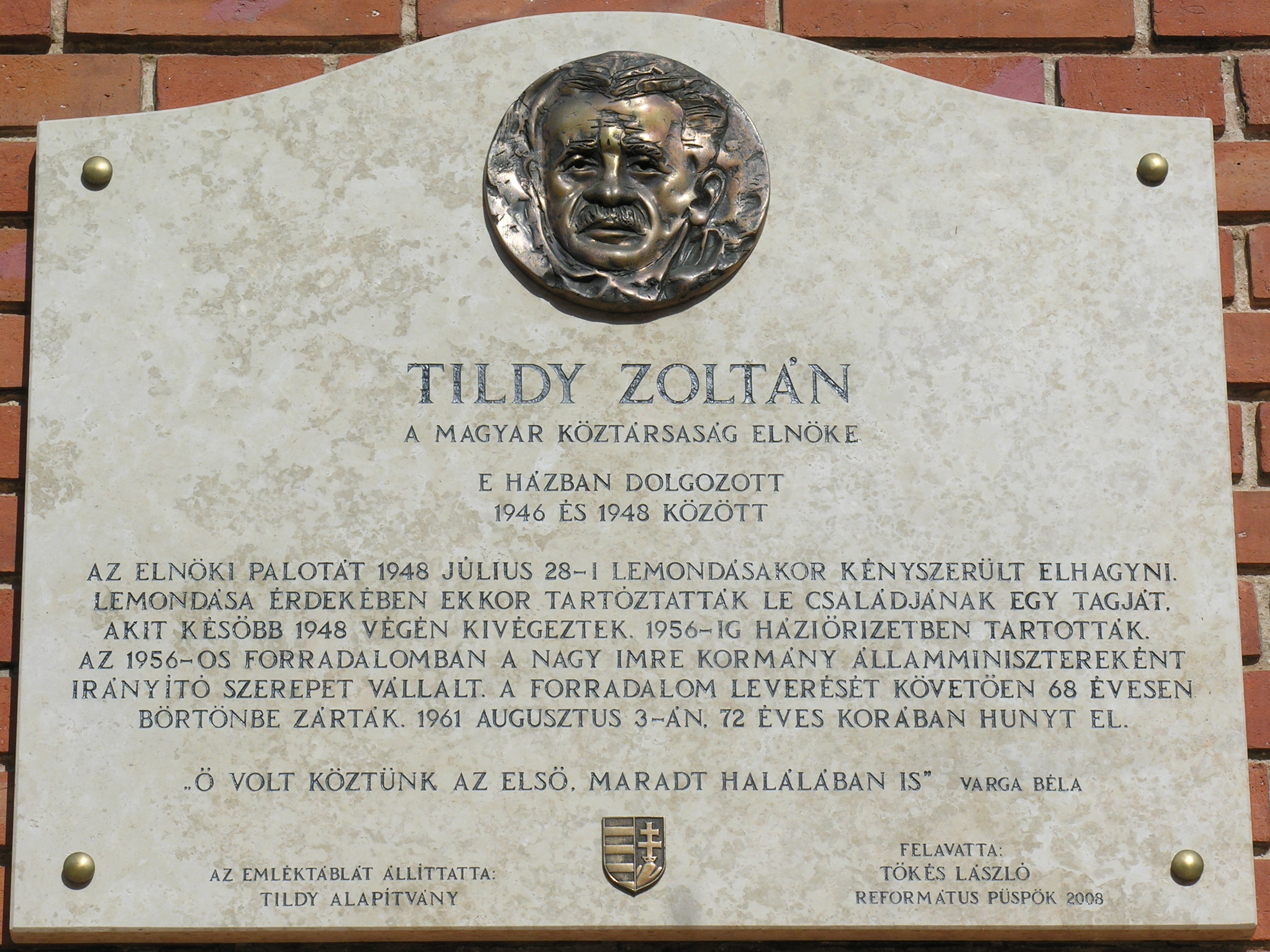 Commemorative plaque of Zoltán Tildy in Budapest District VIII, Pollack Mihály Square No 3 (Hungarian Radio)